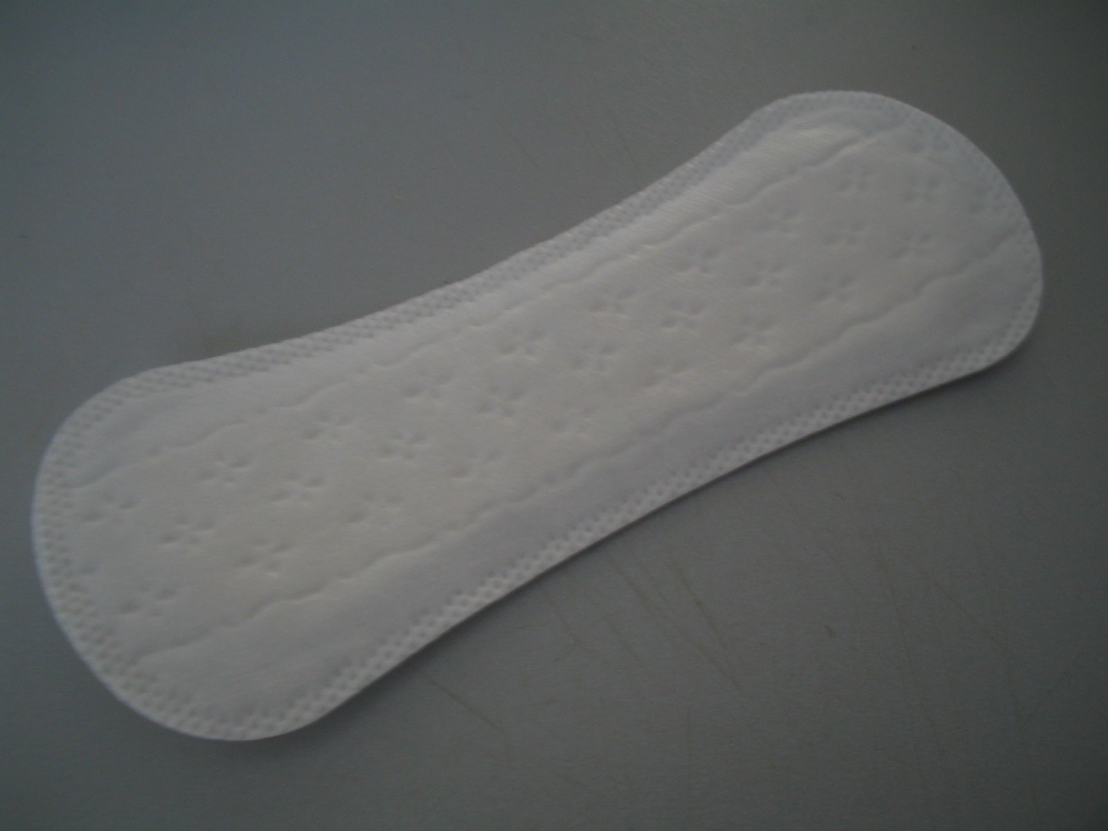 A wingless sanitary towel.